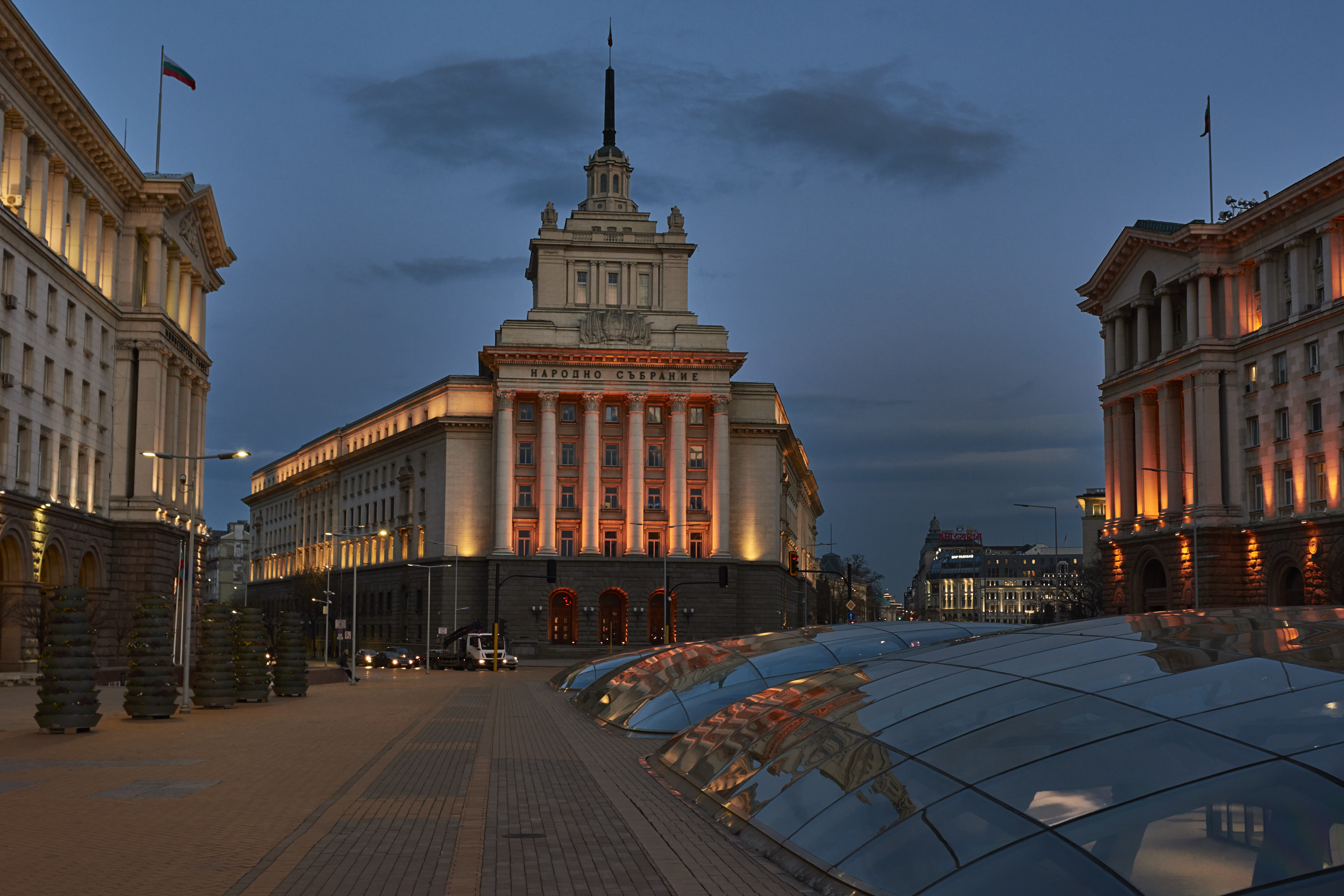 The Largo is an architectural ensemble of three Socialist Classicism edifices in central Sofia, designed and built in the 1950s with the intention of becoming the city's new representative centre. Today it is regarded as one of the prime examples of Socialist Classicism architecture in Southeastern Europe, as well as one of the main landmarks of Sofia.